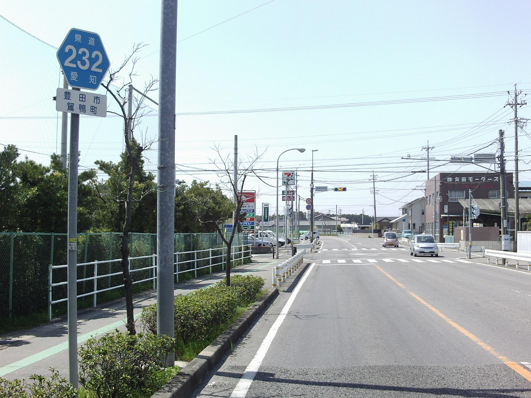 Aichi prefectural road No.232 in Oshikamocho, Toyota, Aichi.